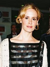 Sarah Paulson at the 51st Annual Drama Desk Awards